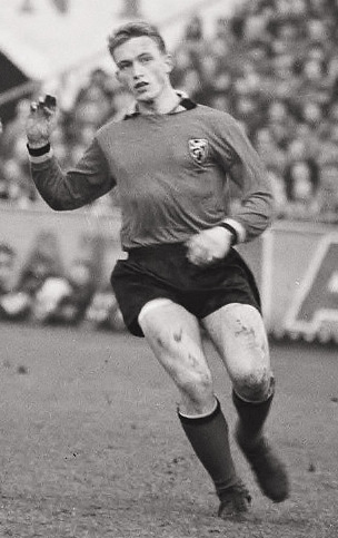 Belgian international football player Paul Van Himst during a friendly against the Netherlands in 1964